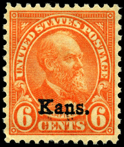 United States 6c Kansas overprint stamp of 1929